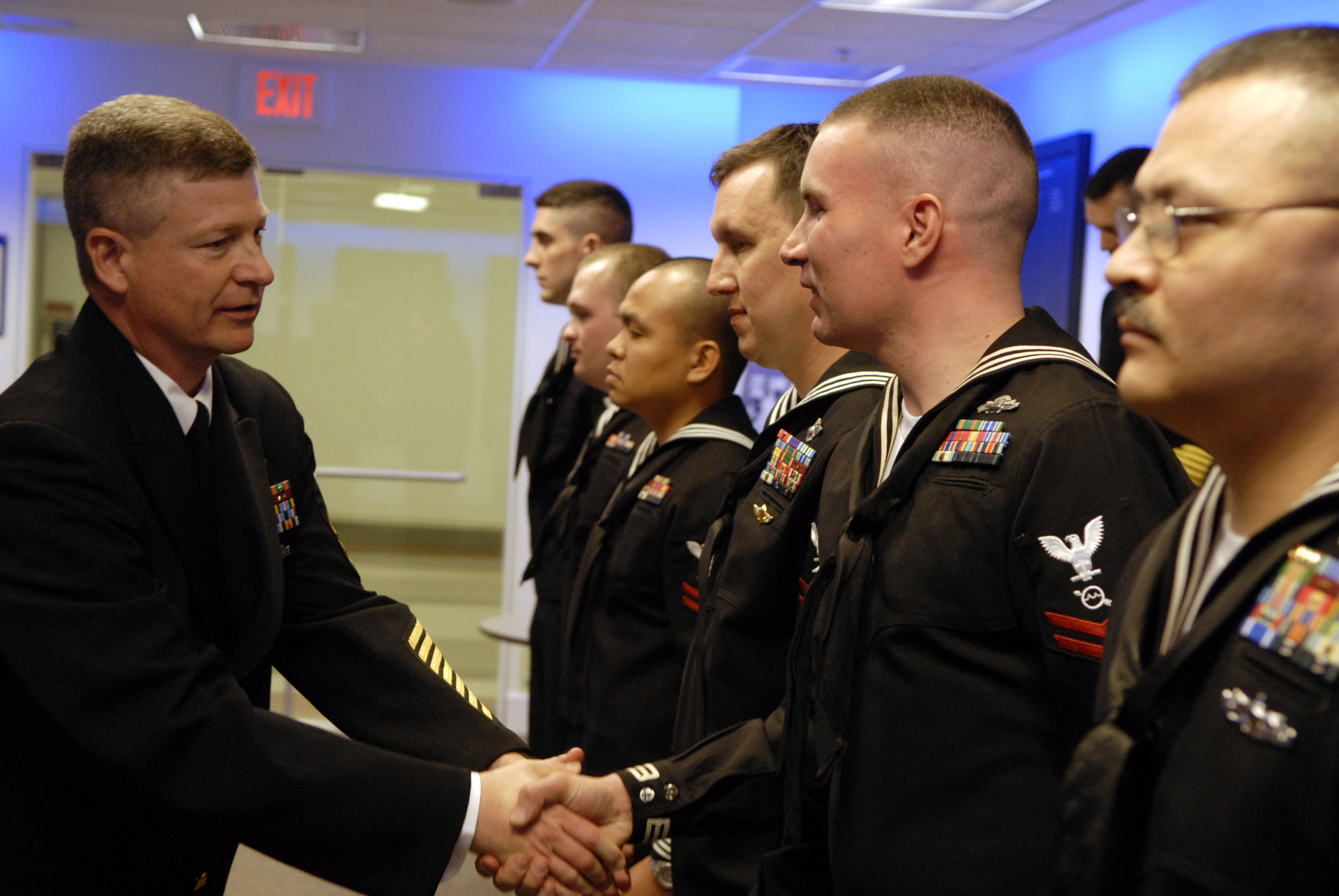 WASHINGTON (March 5, 2009) Master Chief Petty Officer of the Navy (MCPON) Rick West meets with Sailors who recently returned from serving an Individual Augmentee assignment during the Reserve Appreciation Day at the Pentagon Hall of Heroes. (U.S. Navy photo by Mass Communication Specialist 1st Class Jennifer A. Villalovos/Released)